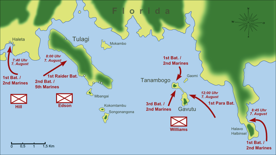 Map in German language depicting the allied landings on Tulagi, Florida Island, Gavutu and Tanambogo (7 / 8 August 1942) during the Pacific War. It is based mainly on a sketch from the book: Joseph N. Mueller: Guadalcanal 1942 - The marines strike back, London 1992, p.27.